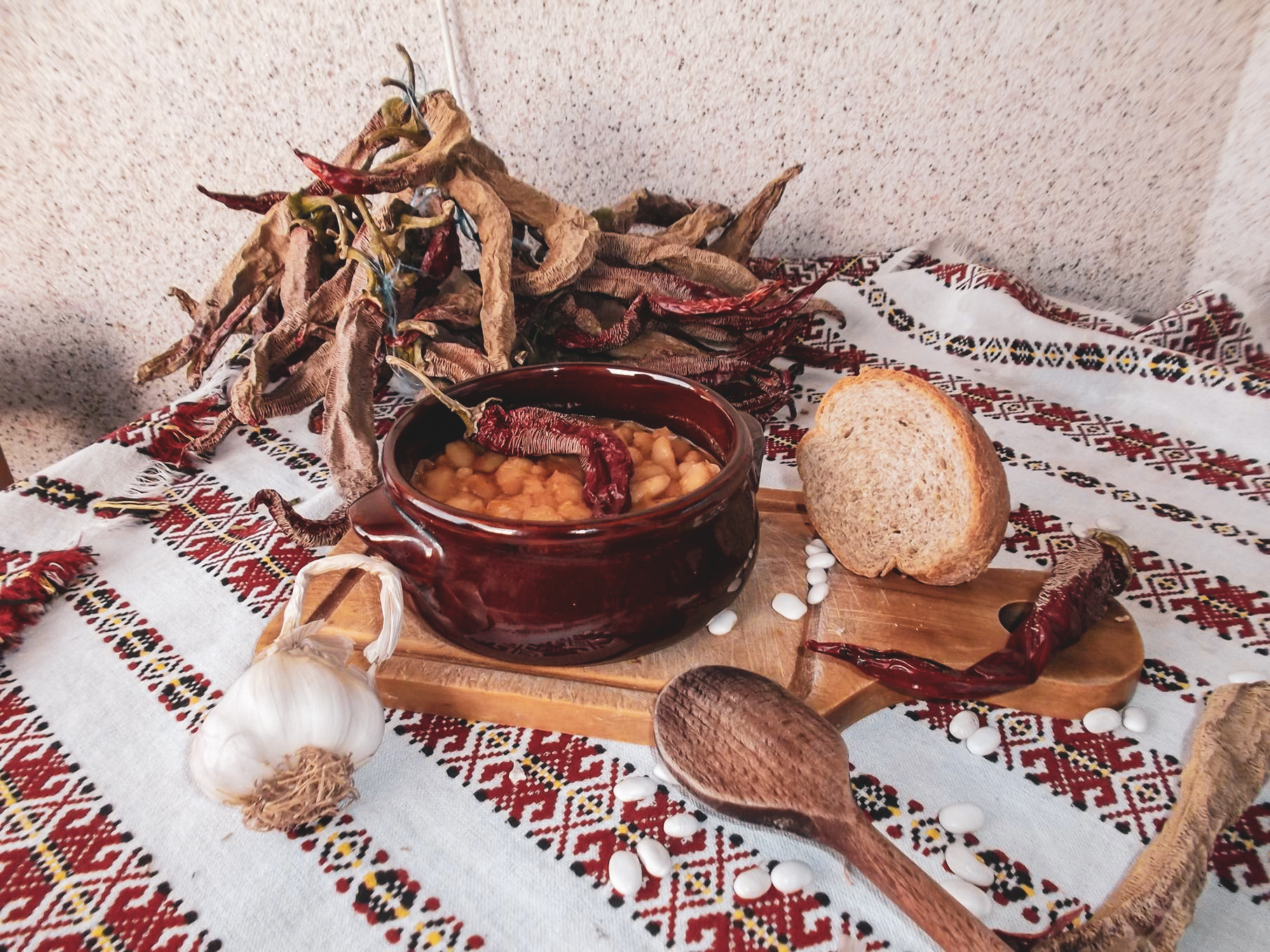 Tetovsko tavce gravce is traditional Macedonian meal. Best way to consummate is with bread, pepper, and onion.